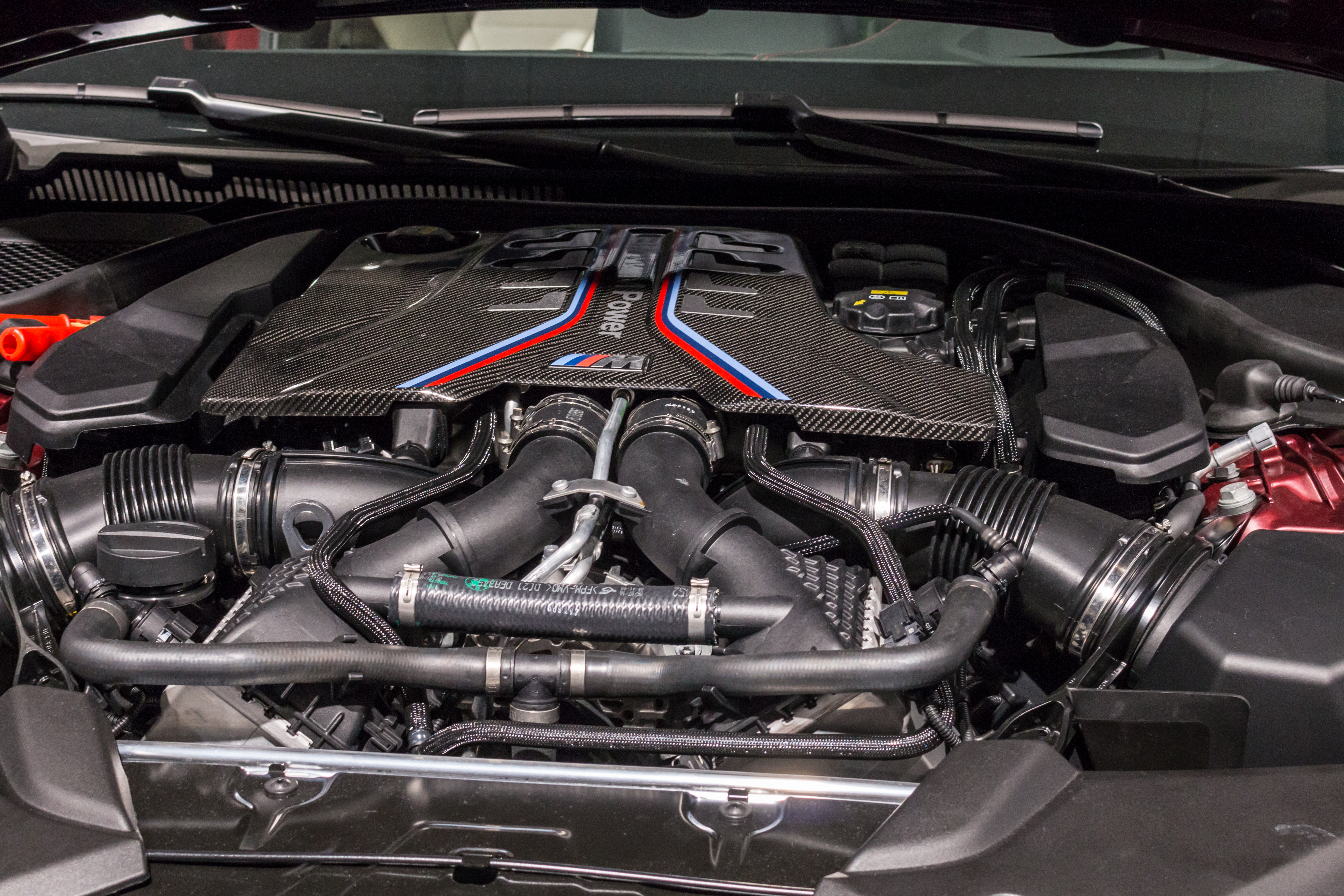 Techno Classica 2018, Essen